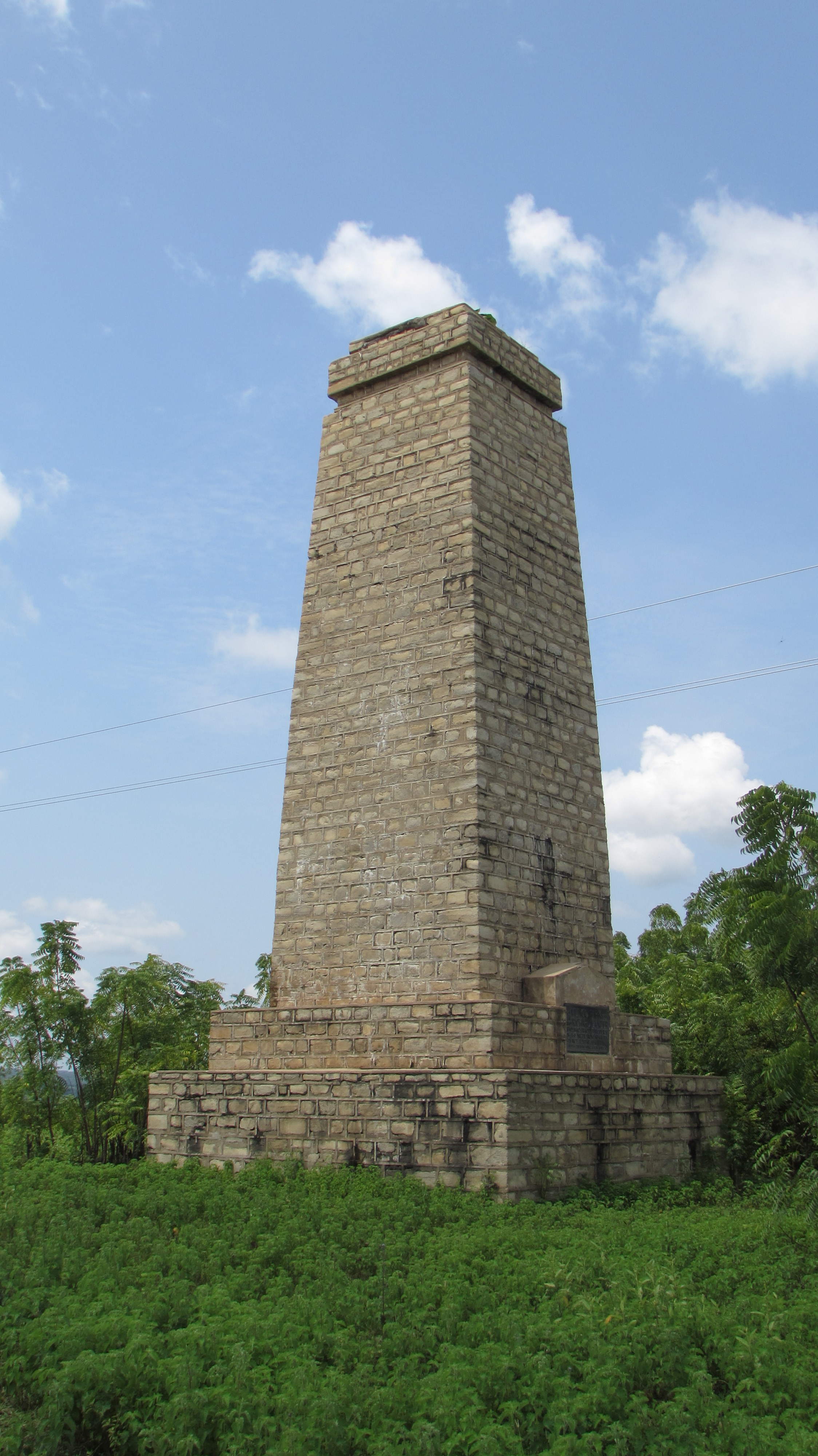 Mongo Park monument, Jebba, Nigeria